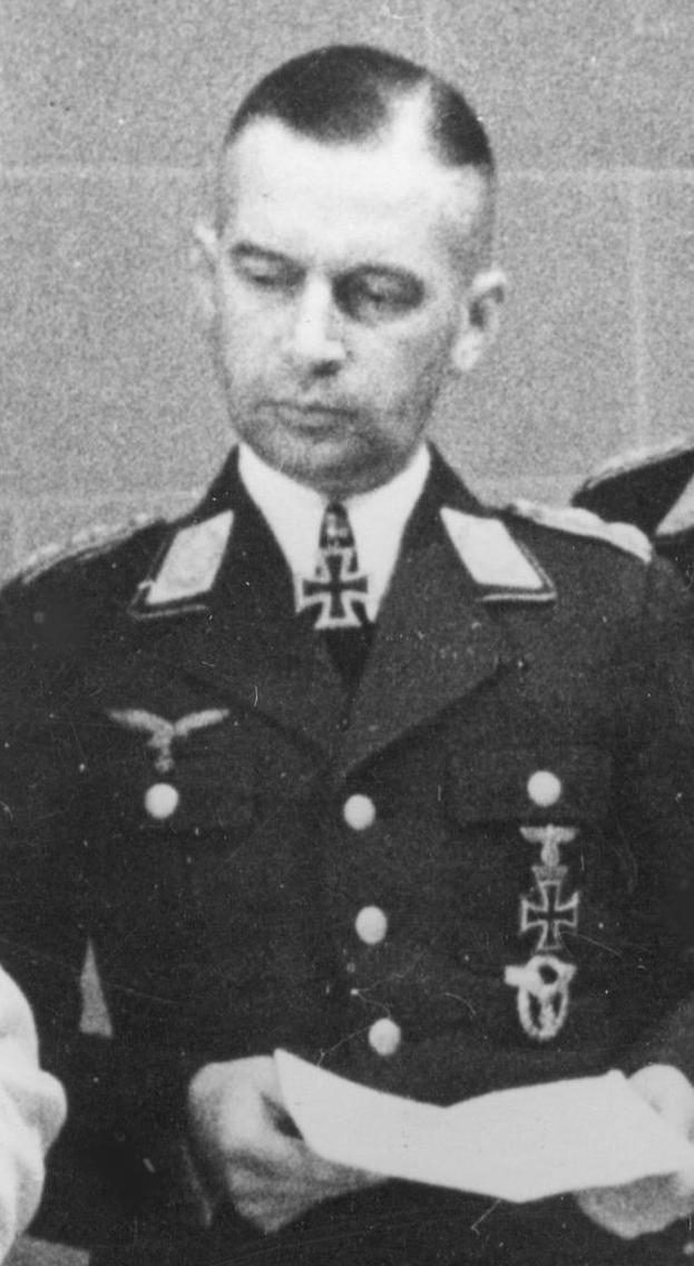 Colonel General Hans Jeschonnek (1899-1943)